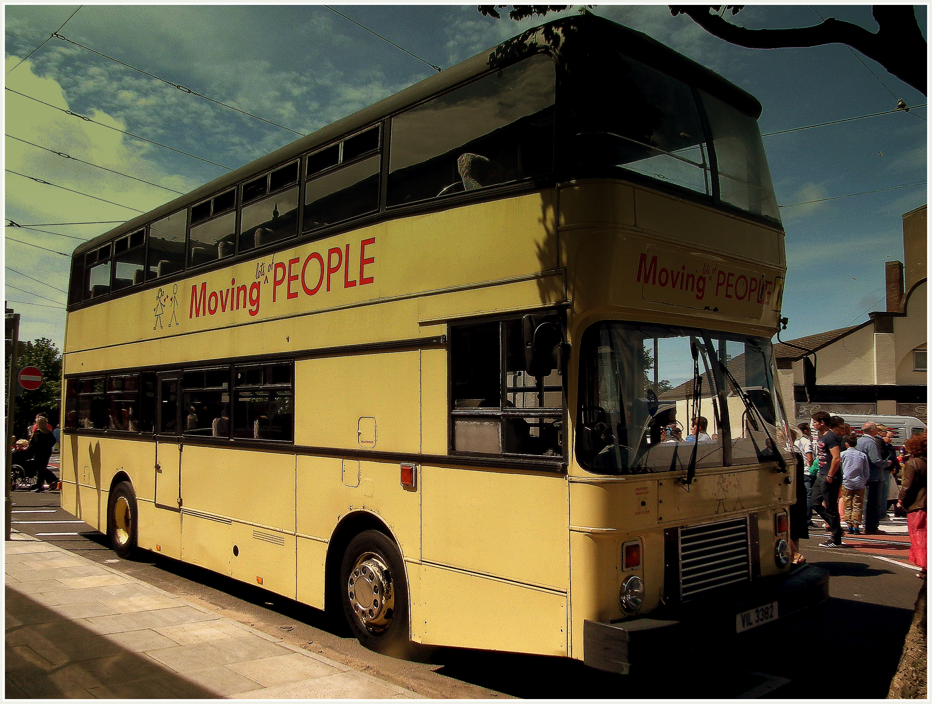 Moving People (Accrington) bus "Stan" (reg. VIL 3382), seen here at the 2012 Fleetwood Festival of Transport. It's a 1989 built Leyland-DAB Lion double decker with East Lancs bodywork, new to Nottingham City Transport as their No. 382, registered F382 GVO. Only 32 Lions were ever built, with just ten receiving East Lancs bodies. Nottingham took 13 Lions in all - 381-6 were a batch of 5 with coach seating. While at Nottingham, all 5 were re-registered with cherished plates, VIL 3382/2983/4784/4685/4686. They were later sold as a batch to Andrews of Tideswell, receiving a cream livery, before being sold on again as a batch to Moving People, who have added the black roof, and given them all names ("Tom", "Dick", "Stan", "Harry" and "Ollie").